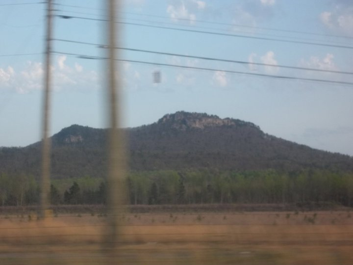 King Mountain,North Carolina